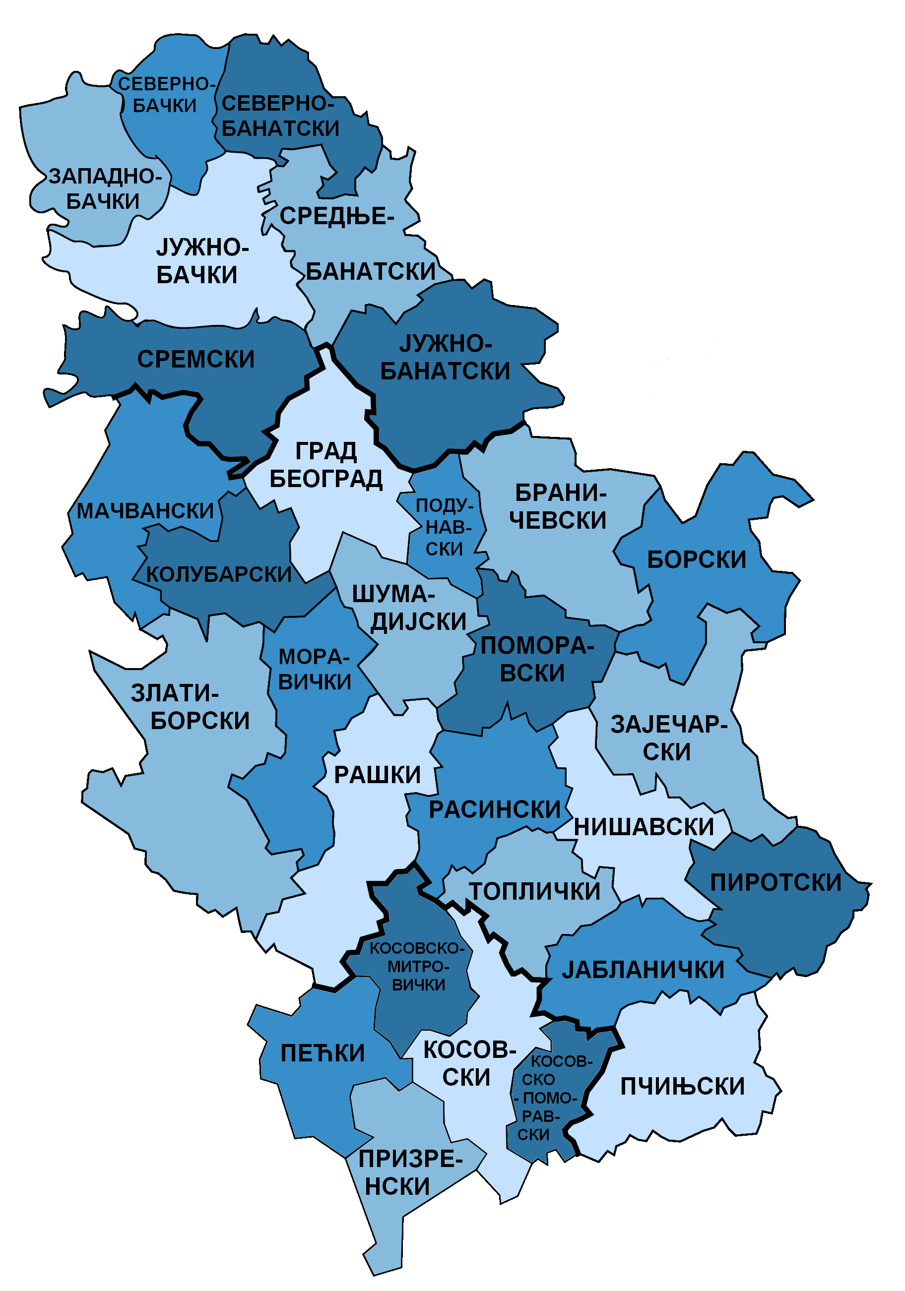 Map of districts of Serbia (Serbian version)